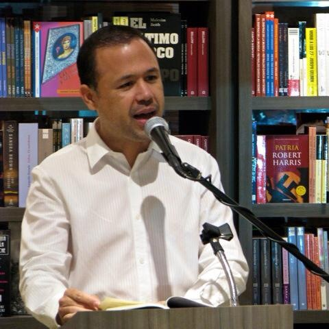 Reading by authors of Erizo Editorial at Libros AC, San Juan, Puerto Rico.